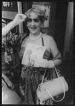 Title: Portrait of Aileen Pringle, at the Thalia Abstract/medium: 1 photographic print : gelatin silver.